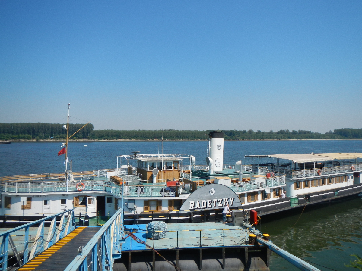 National Museum Steamship "RADETZKY", Town of Kozloduy, Bulgaria